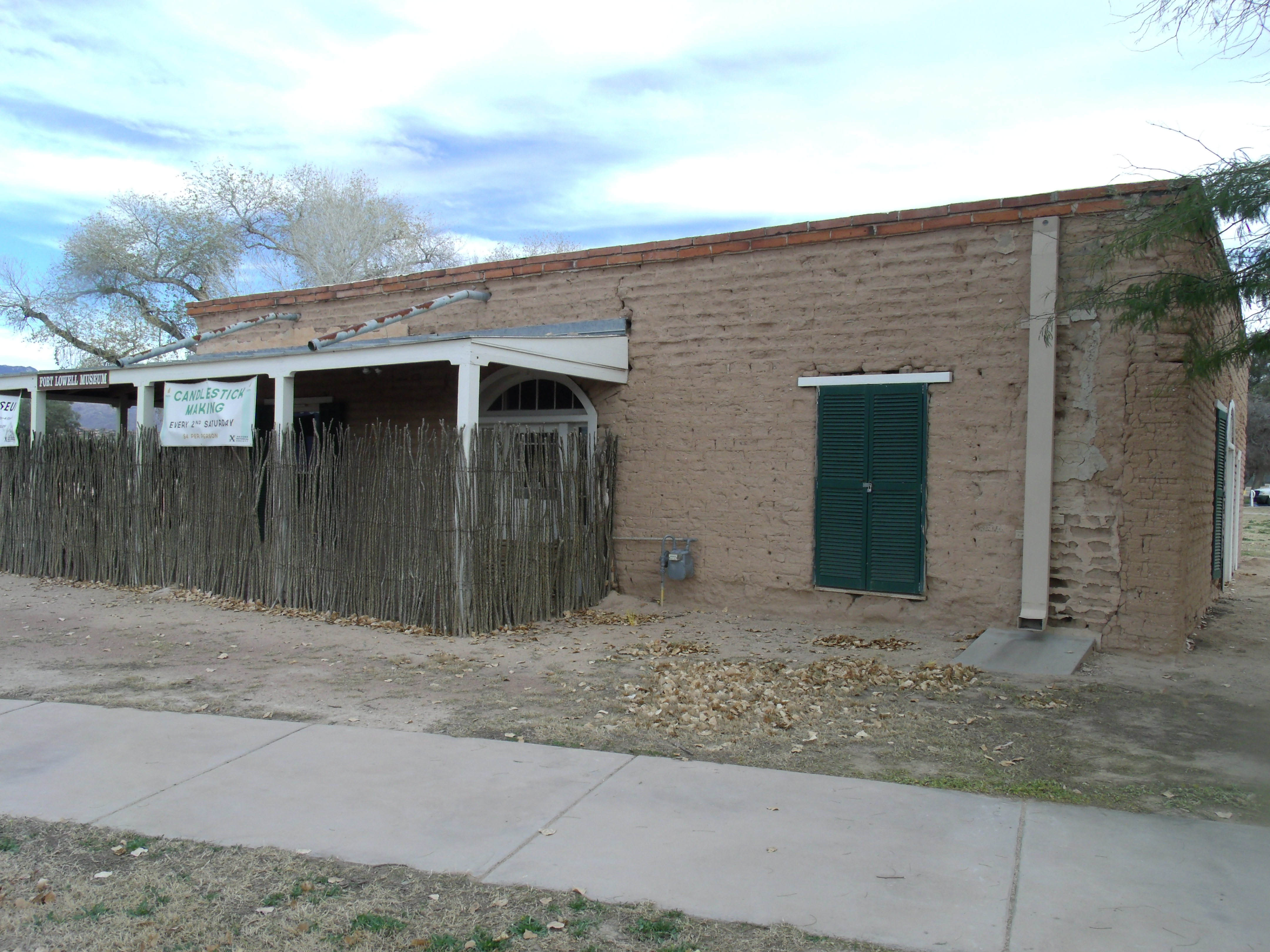 The Fort Lowell Park Museum is located in the Fort Lowell Park at 2900 N Craycroft Rd. in Tucson, Az. The museum is a reconstructed Commanding Officer’s quarters of the Old Fort Lowell. The park was listed in the National Register of Historic Places in 1978, ref.: #78003358.